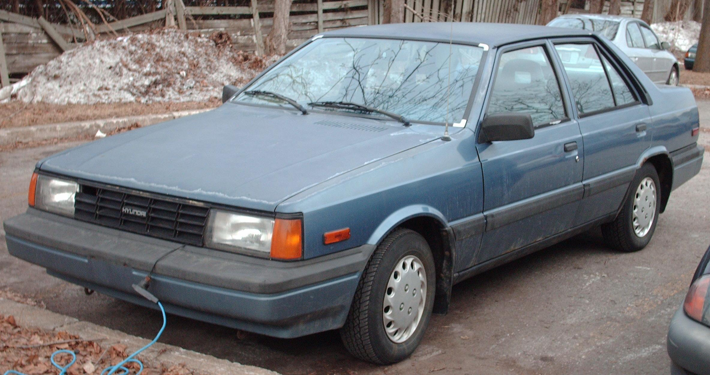 1986 Hyundai Stellar photographed in Dollard Des Ormeaux, Quebec, Canada.